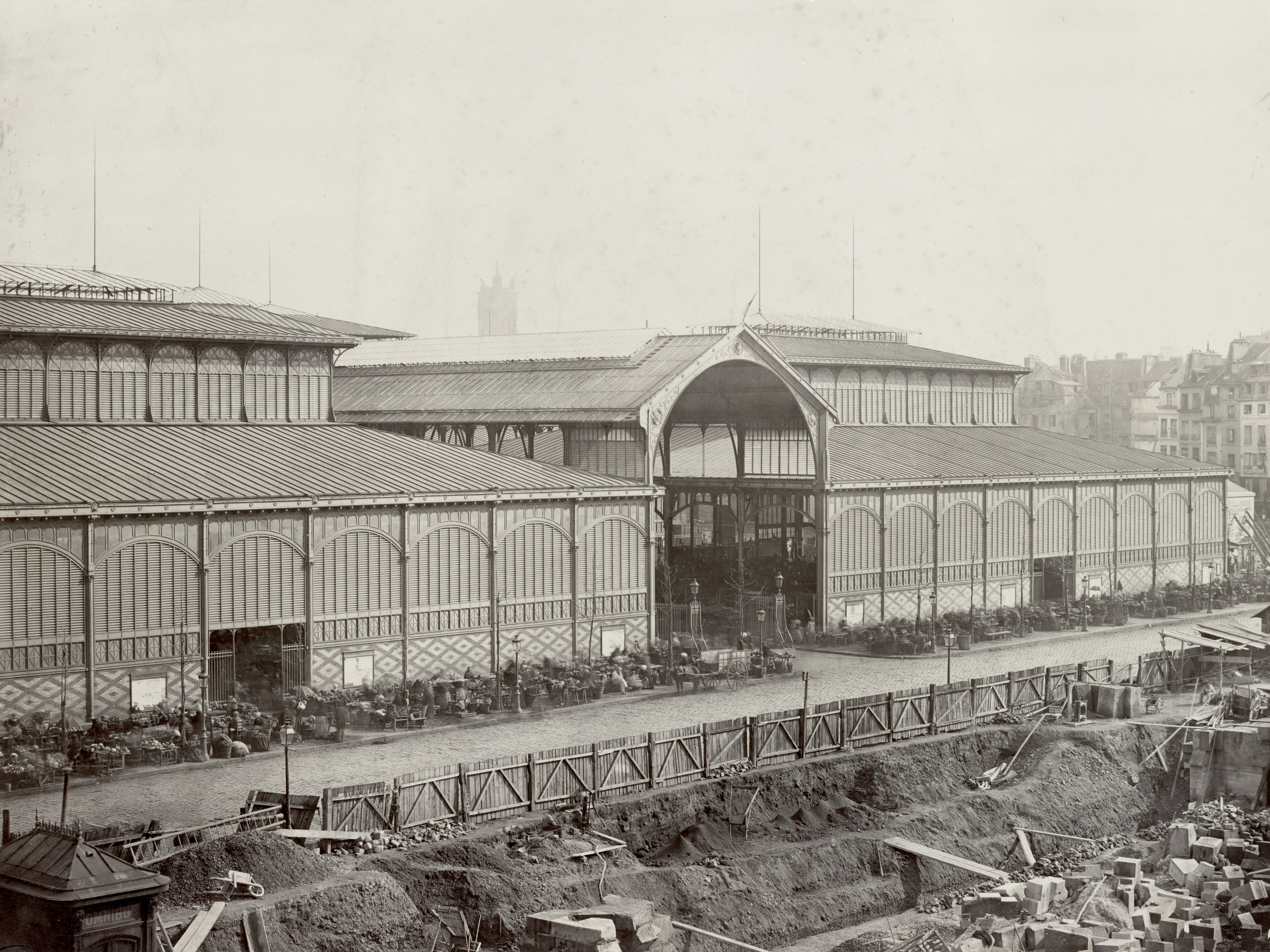 Les Halles, Paris, France.